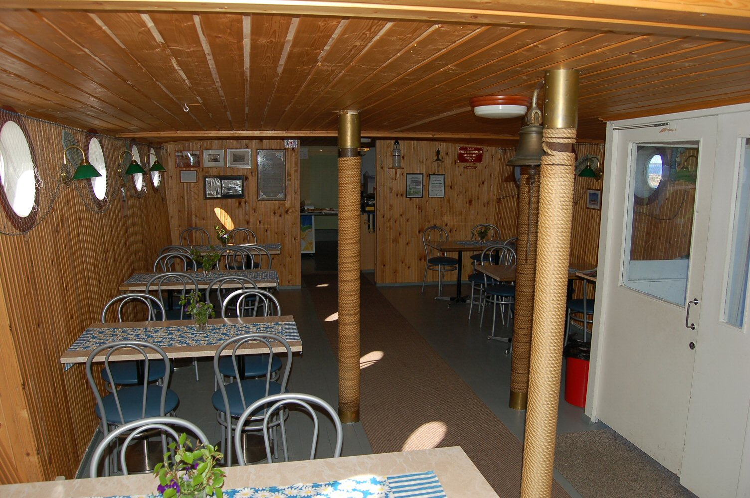 Lower deck cabins and the engine room of SS Hailuoto currently serve as a cafe and a kitchen.